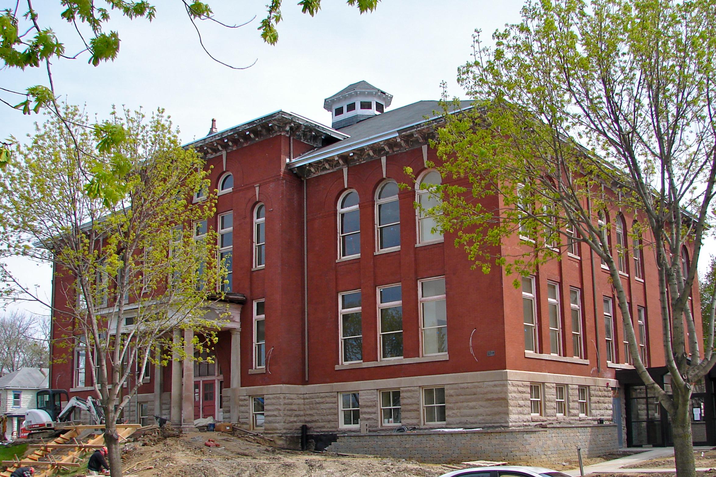 Taylor School on the NRHP since July 7, 1983. At 1400 Warren St., Davenport, Scott County, Iowa. Former school building designed in the Colonial Revival style by the Davenport architectural firm of Clausen & Burrows. Now (as seen in the photo) being developed into senior housing.